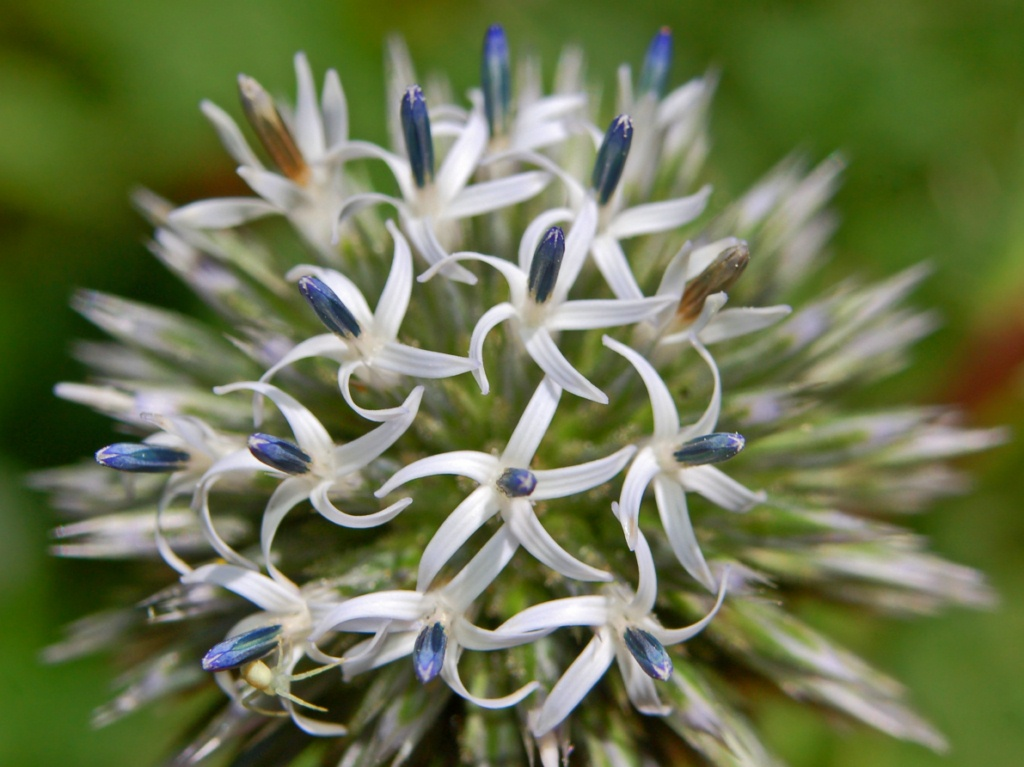 Echinops sphaerocephalus - Val Noci, Genova, Italy